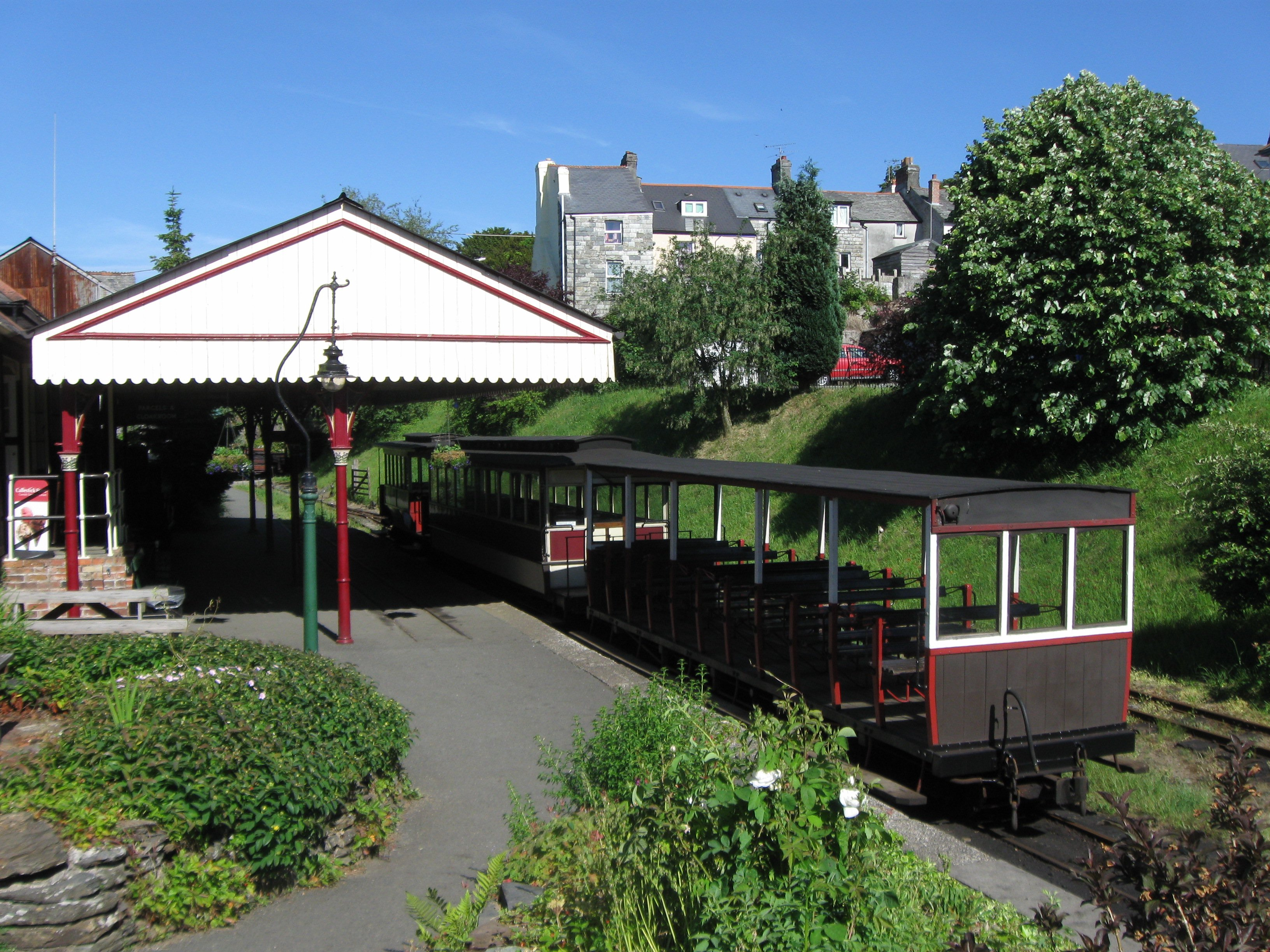 Launceston Station